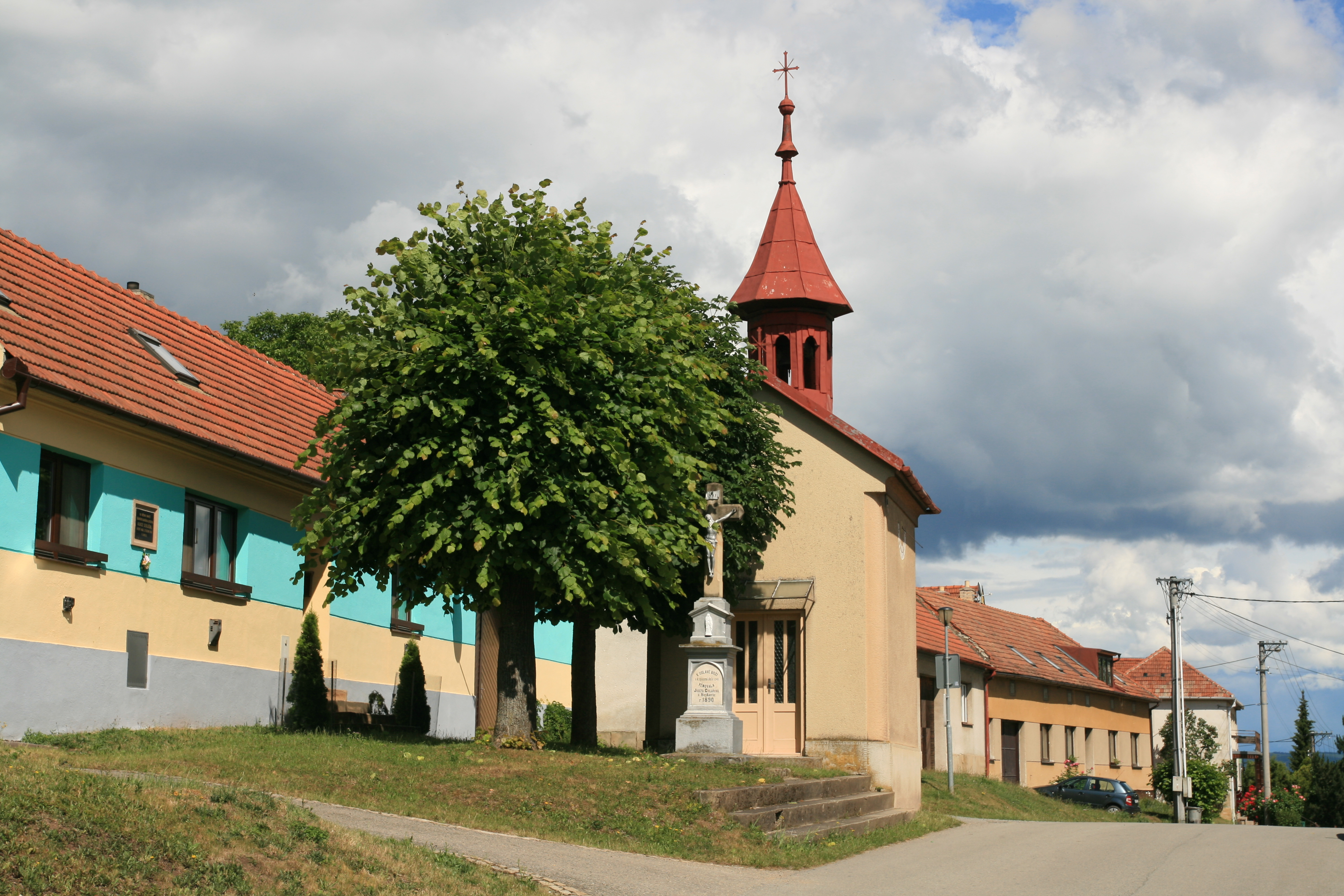 Býkovice, Blansko District, Czech Republic. Holy Trinity chapel.